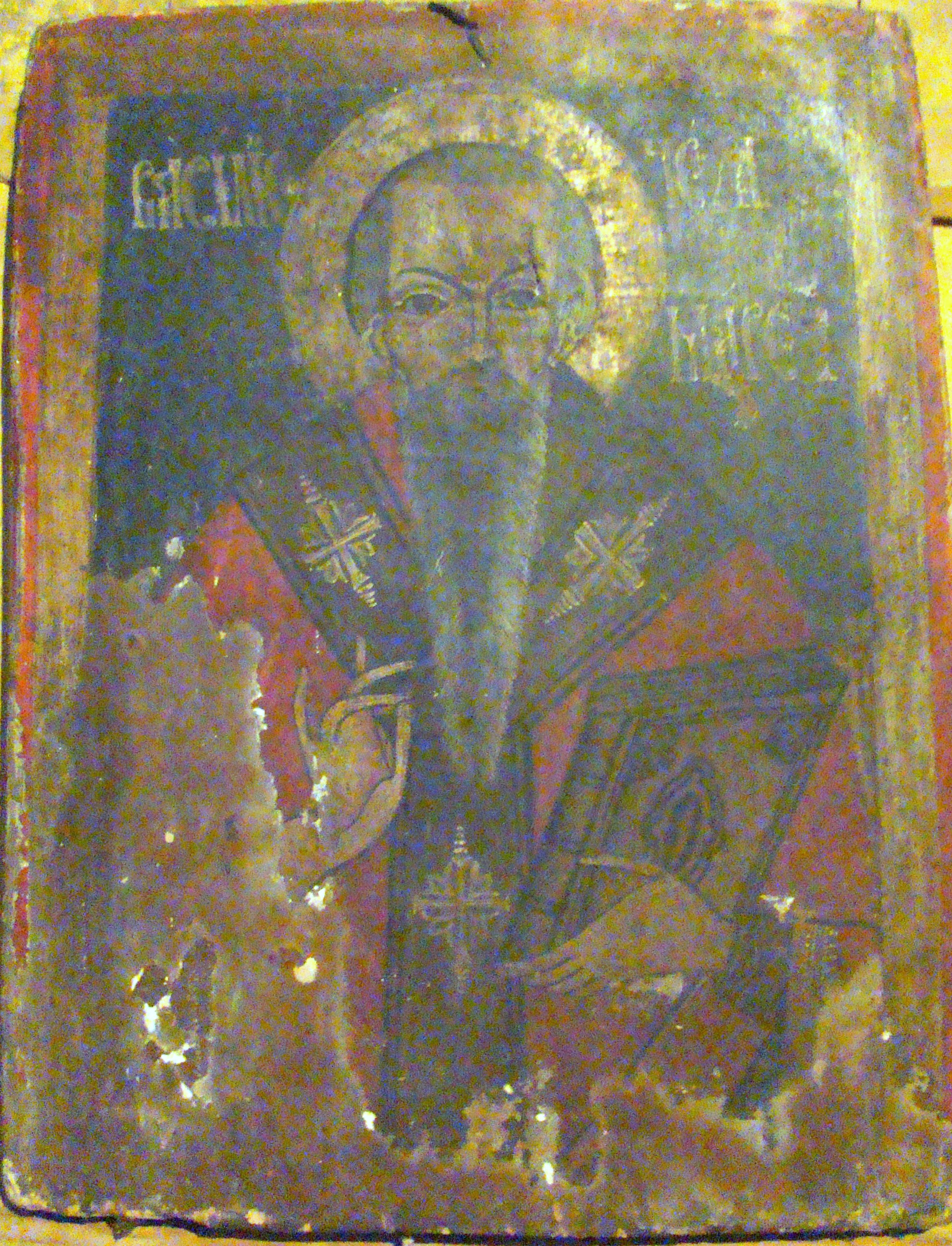 Wooden church in Bărăi, Cluj county, Romania